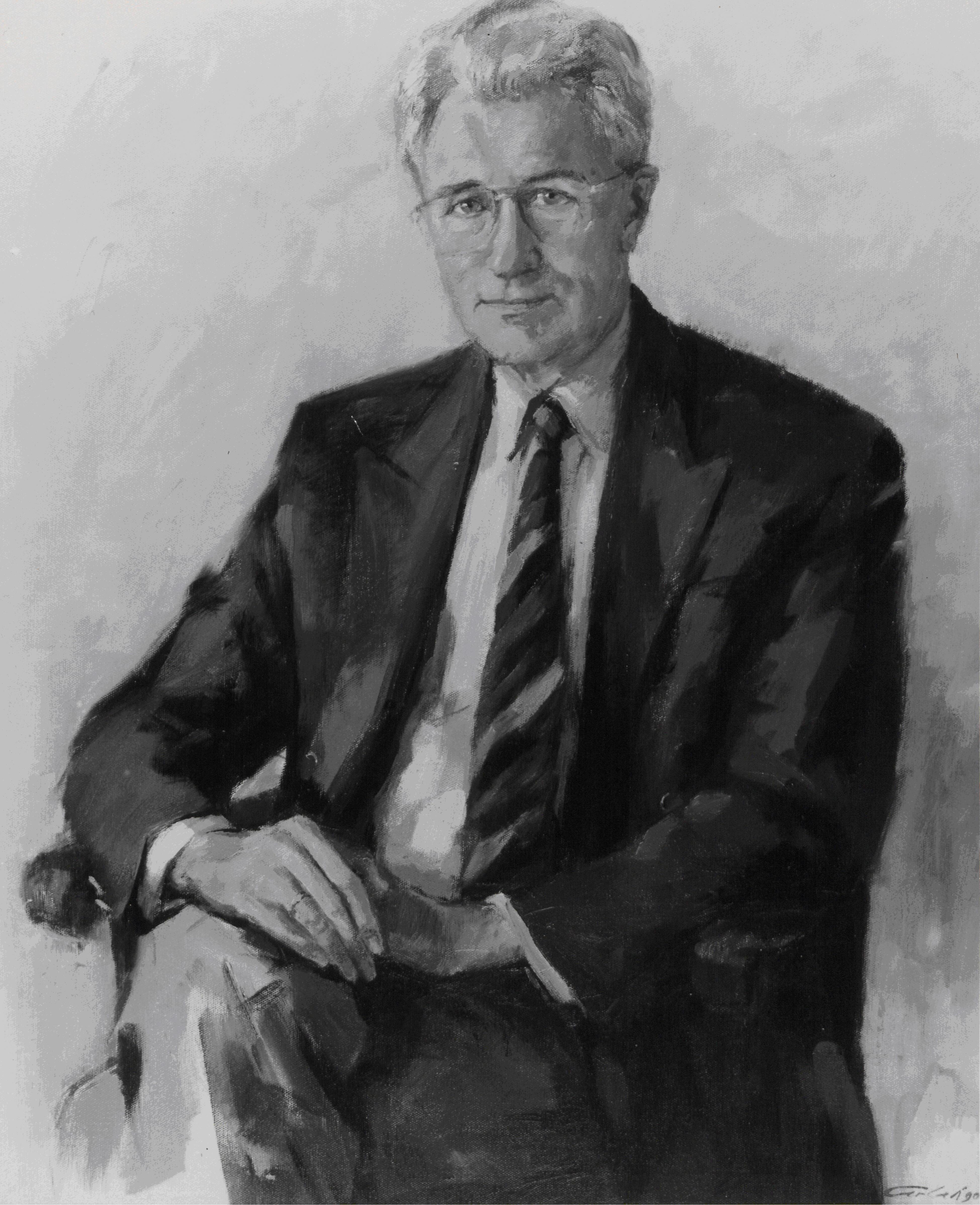 Kees (Cornelis) Kalkman (1928-1998), Dutch botanist. Picture of a painting made by Carla Rodenberg in 1991